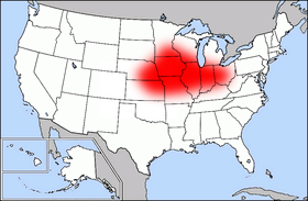 Public domain map courtesy of The General Libraries, The University of Texas at Austin, modified (by • Benc • 00:33, 13 Aug 2004 (UTC)) to highlight regions.